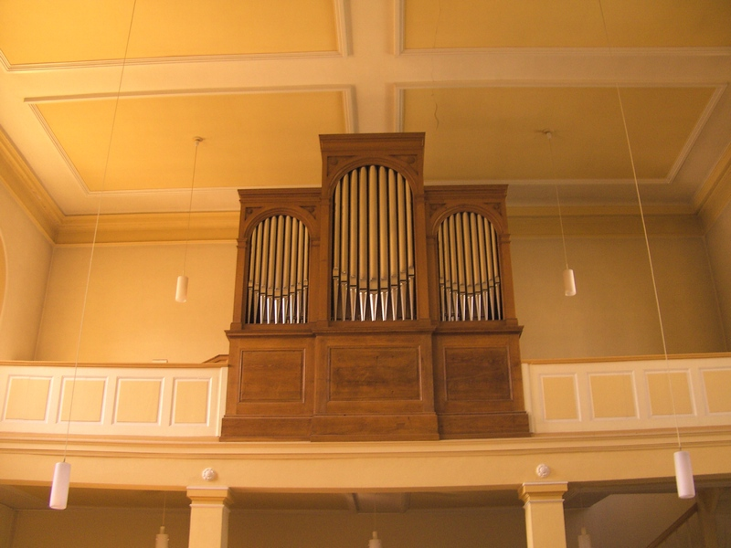 organ of the protestantic church st. Wendel